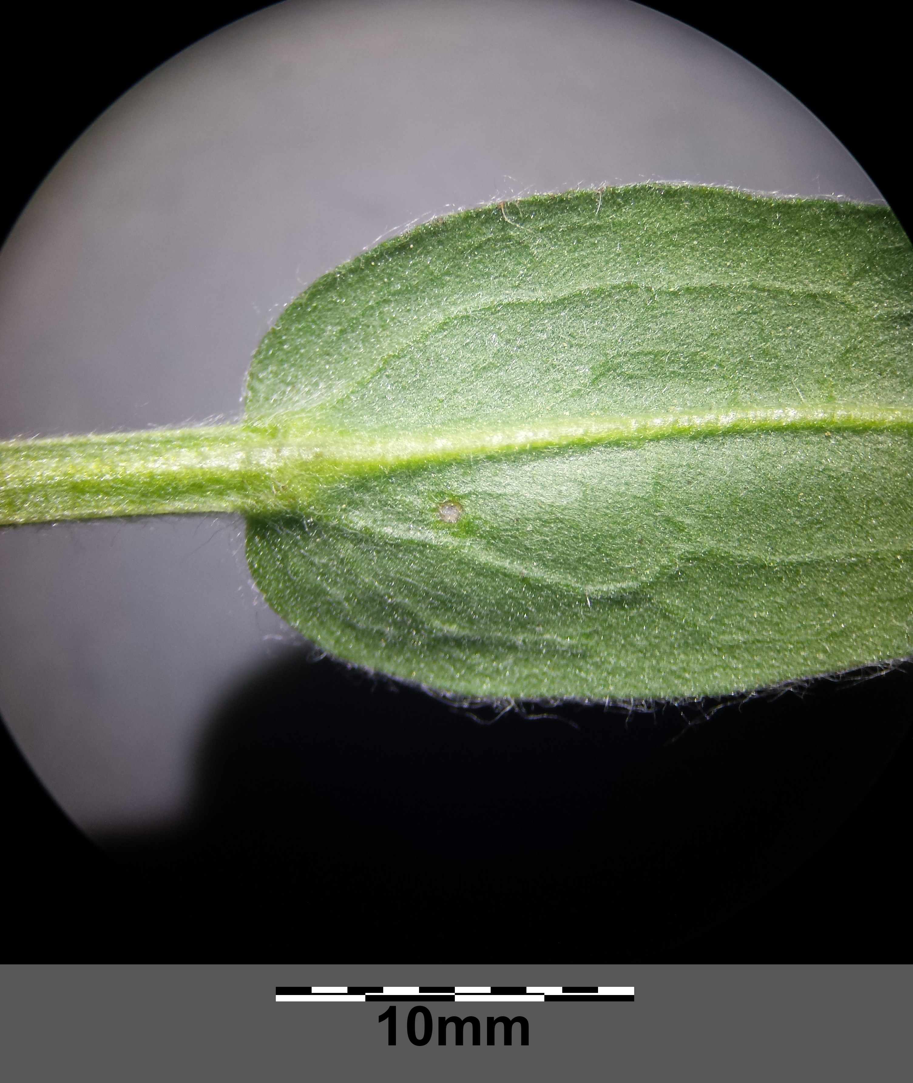 Stem with leaf (bottom side) Taxonym: Cynoglossum officinale ss Fischer et al. EfÖLS 2008 ISBN 978-3-85474-187-9 Location: Burgstall to the North of Großmugl, district Korneuburg, Lower Austria - 280 m a.s.l. Habitat: slope